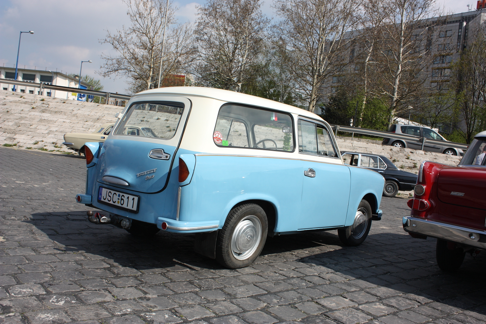 Trabant 500 Universal.